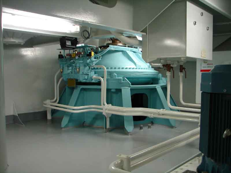 One of the rudder motors on the salvage tug Abeille Bourbon